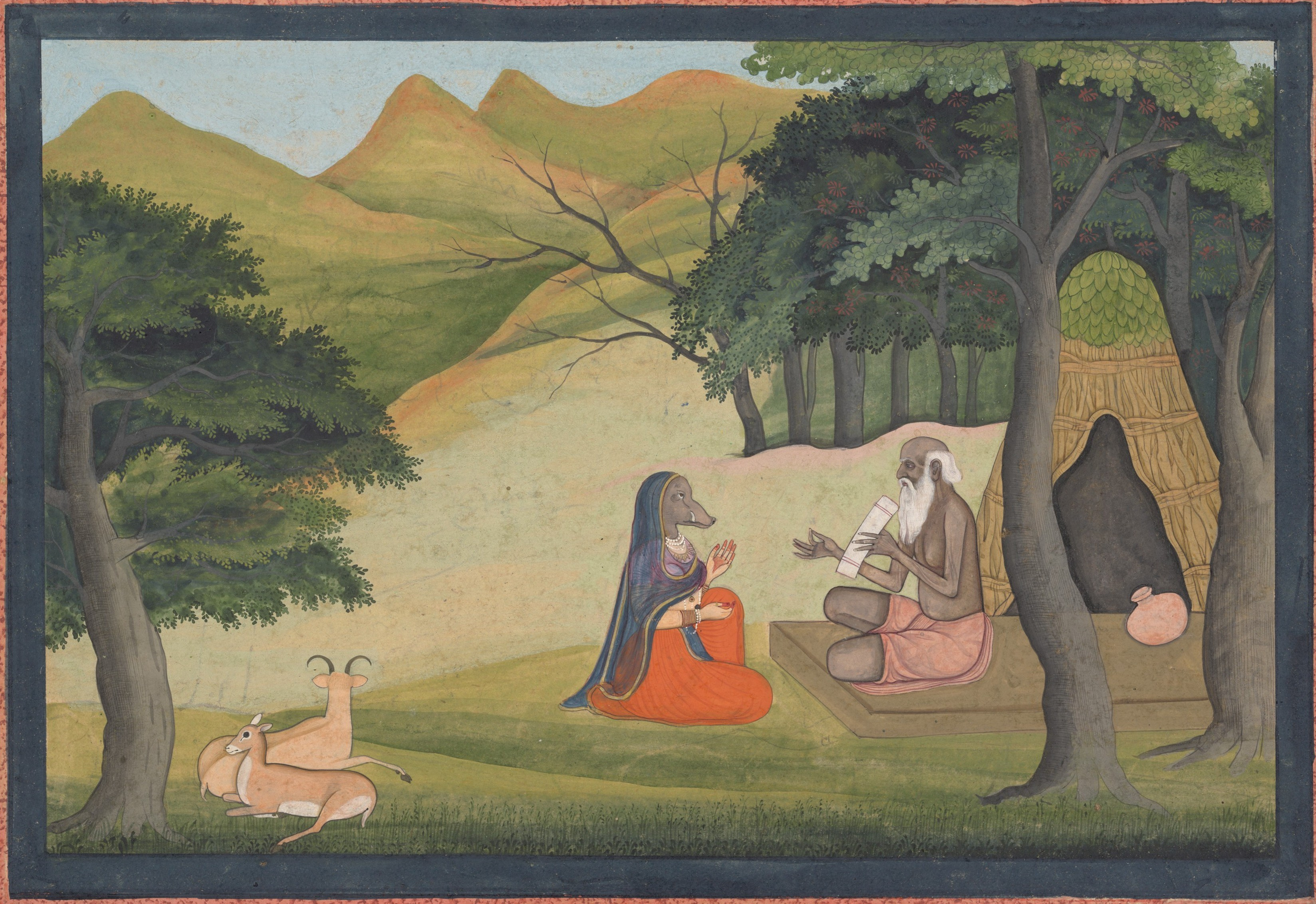 The subject of this painting is unusual. Queen Choladevi, whose husband had been blessed by Lakshrni, the goddess of good fortune, had not recognized the goddess when she came to her mansion in disguise. For her neglect, the queen was cursed by the deity and was given the head of a sow. She fled to the sage Angiras, who taught her the secret of the Mahalakshmi vrata, through whose power she was restored to mortal form. The story stresses the efficacy of tantric worship.